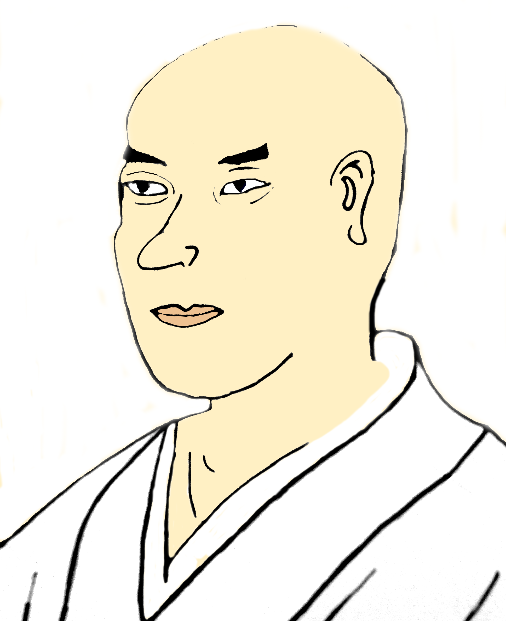 This is a portrait of Egaku, an early Heian period Japanese Buddhist monk who is known for his travels to China, bringing the first Zen monk Giku to Japan and the founding of a developed pilgrimage site at China's Mount Putuo. He is also known for bringing the complete works of Bai Juyi to Japan.